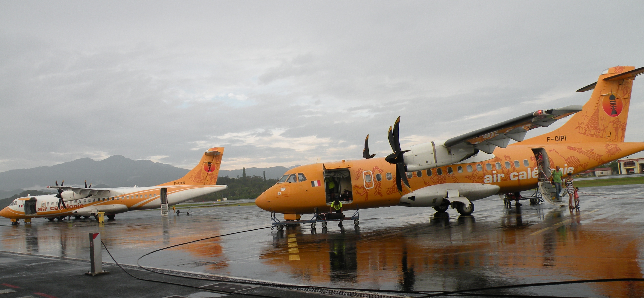 Air Calédonie aircraft at Nouméa Magenta Airport. In the foreground is ATR 42-500 (F-OIPI) and in the background is ATR 72-500 (F-OIPN.